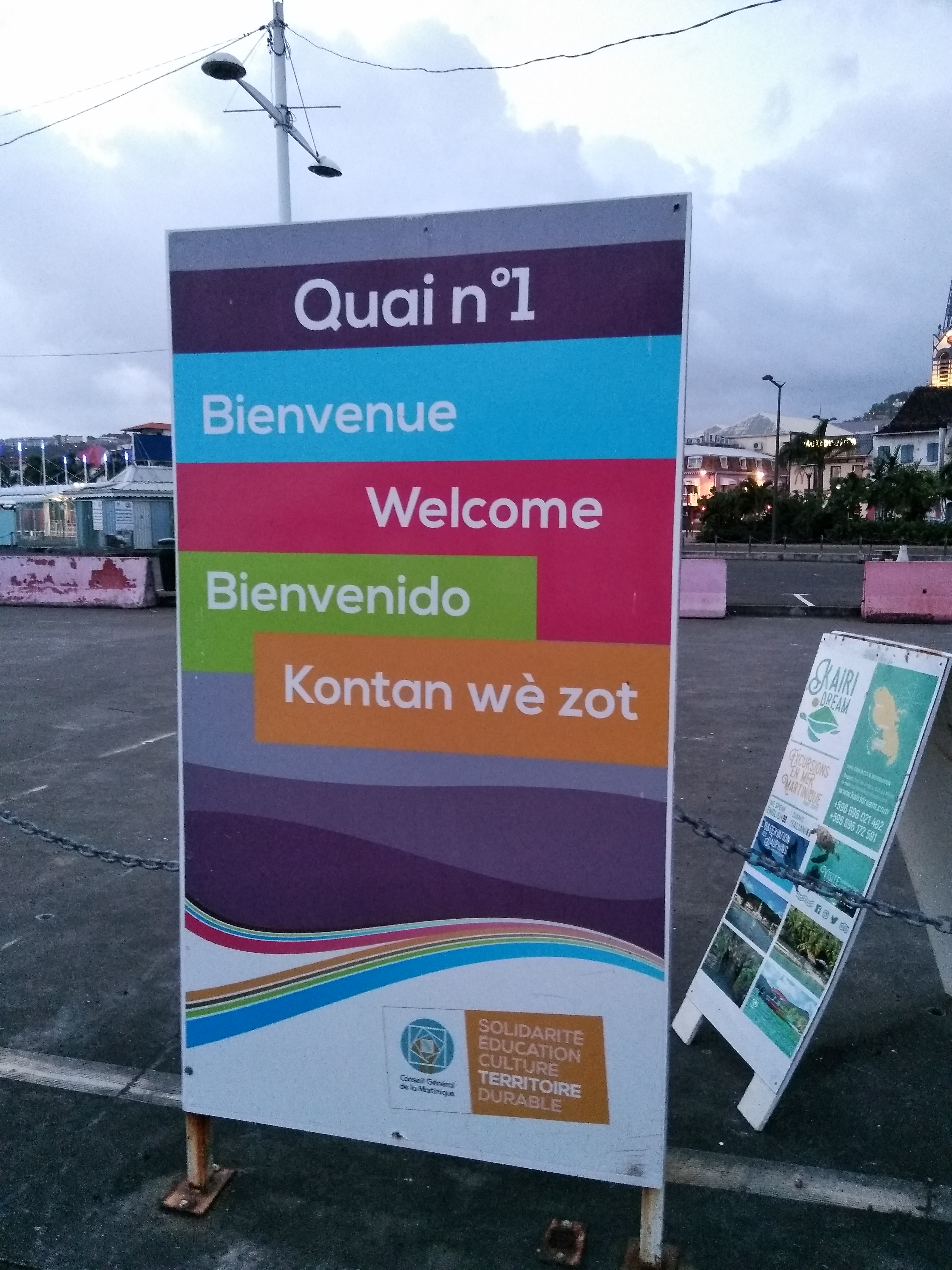 Quadrilingual welcome sign in the harbour of Fort-de-France (Martinique) : "bienvenue" (French), "welcome" (English), "bienvenido" (Spanish), "Kontan wè zot" (Martinique Creole)